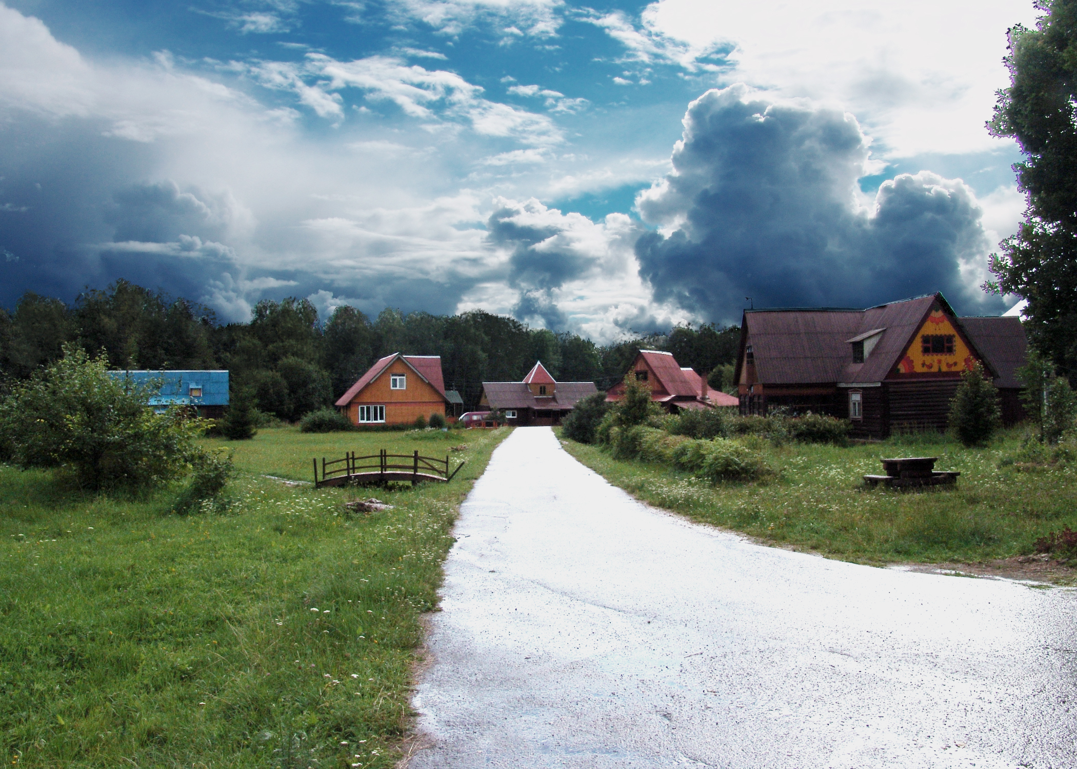 Road in the center of the Kitezh Children's Community for foster children in the Kaluga Region of Russia.